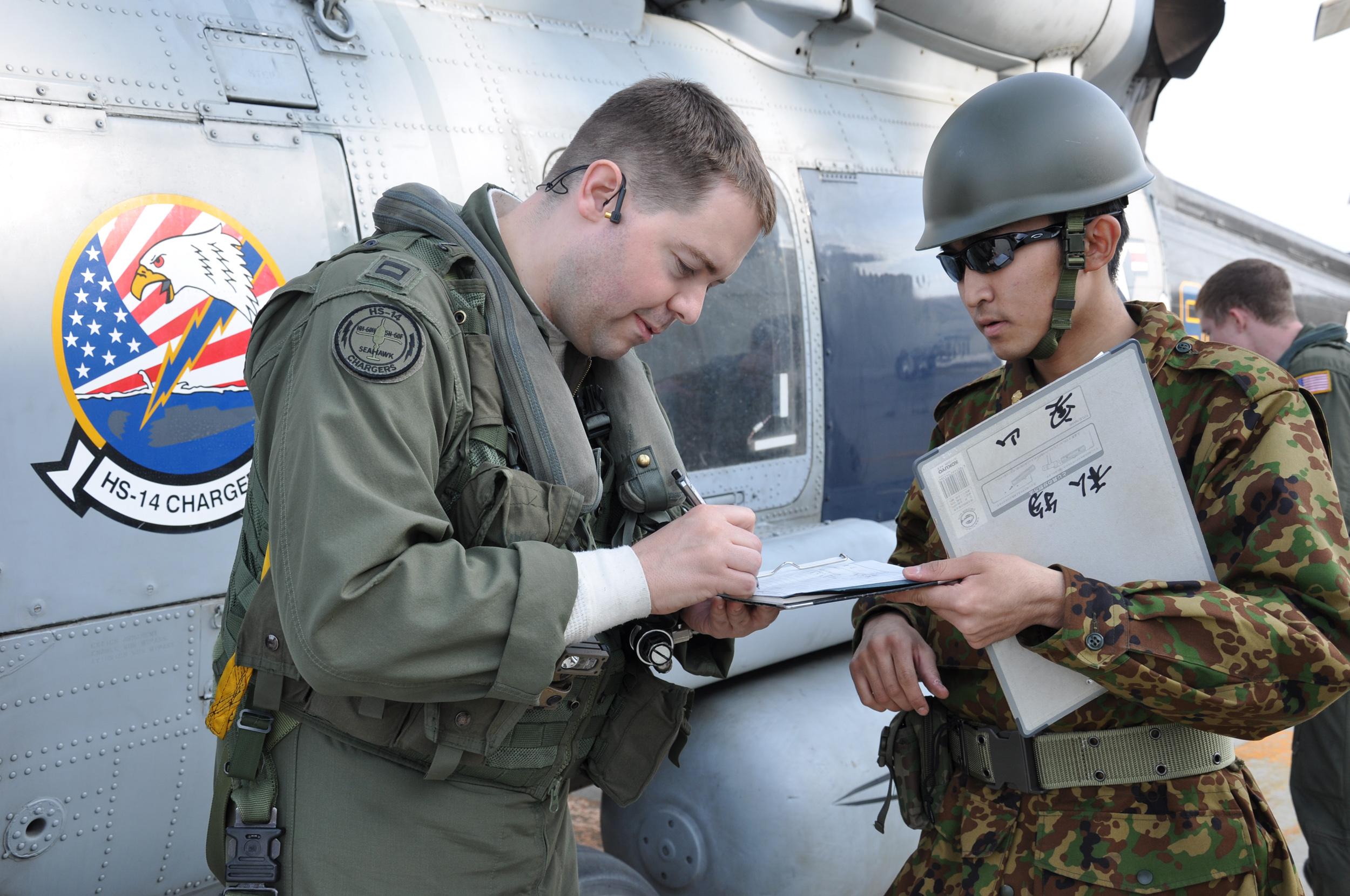 YAMAGATA, Japan (March 14, 2011) Lt. Jacob King, assigned to the Chargers of Helicopter Anti-Submarine Squadron (HS) 14, signs for fuel received from the Japan Ground Self-Defense Force at Yamagata Airport. HS-14, based at Naval Air Facility Atsugi, Japan, is conducting search and rescue missions in Miyagi Prefecture in support of Operation Tomodachi. (U.S. Navy photo by Mass Communications Specialist 1st Class Ben Farone/Released)